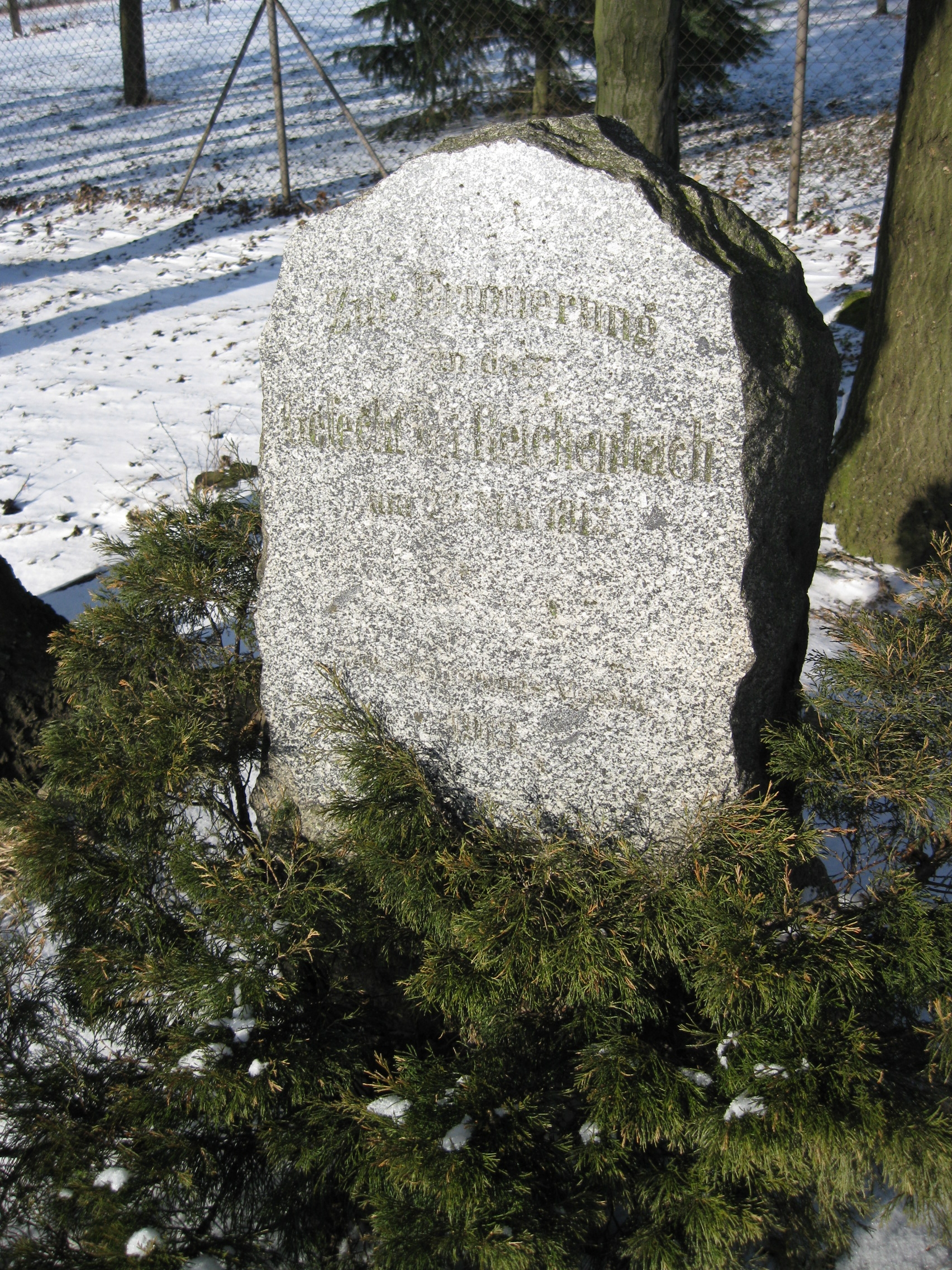 Memorial stone at Töpferberg hill, Reichenbach/O.L., Germany. In remembrance of the battle of Reichenbach, 22 may 1813.